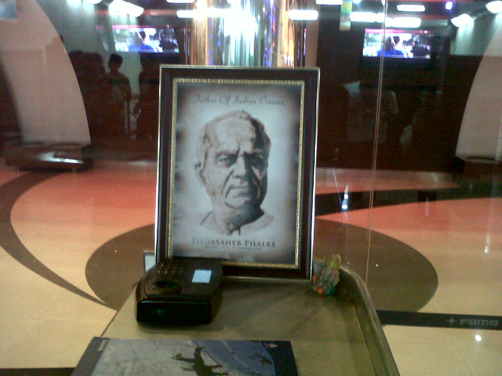 A photo of the Father of Indian Cinema, Dadasaheb Phalke, at one of the popular multiplex in Pune, India